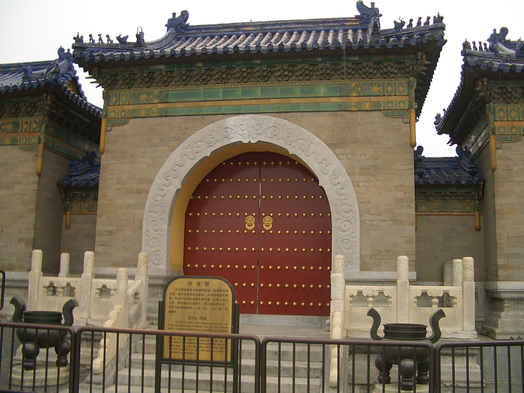 Gates in the Echo Wall, with "jiaotu" handles, in the Temple of Heaven Park, Beijing